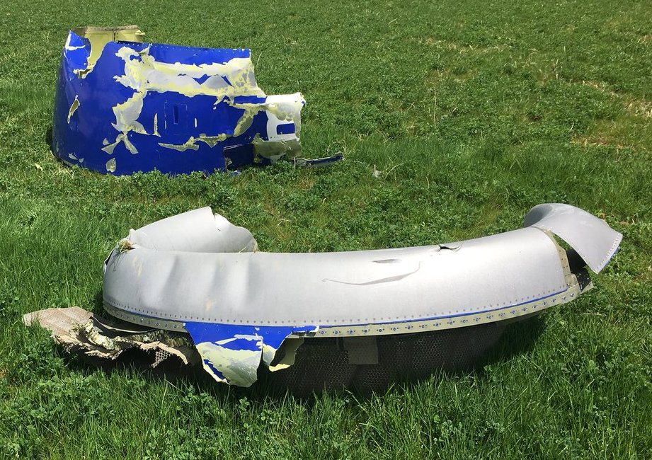 NTSB photo of a piece of the engine cowling from the damaged CFM56 turbofan jet engine of the Boeing 737-700 involved in the Southwest Airlines flight 1380 incident on 17 April 2018. Aircraft Registration N772SW